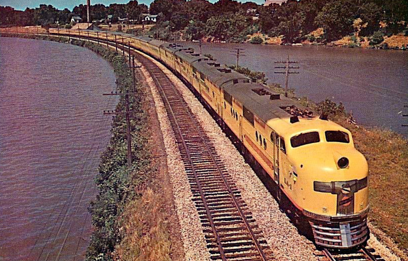 Postcard photo of the streamliner City of Los Angeles near Sterling, Illinois and traveling along the Rock River. The train was jointly operated between the Union Pacific and Chicago and North Western railroads until 1955, when the partnership changed to Union Pacific and the Chicago, Milwaukee, St. Paul, and Pacific (The Milwaukee Road) railroads.